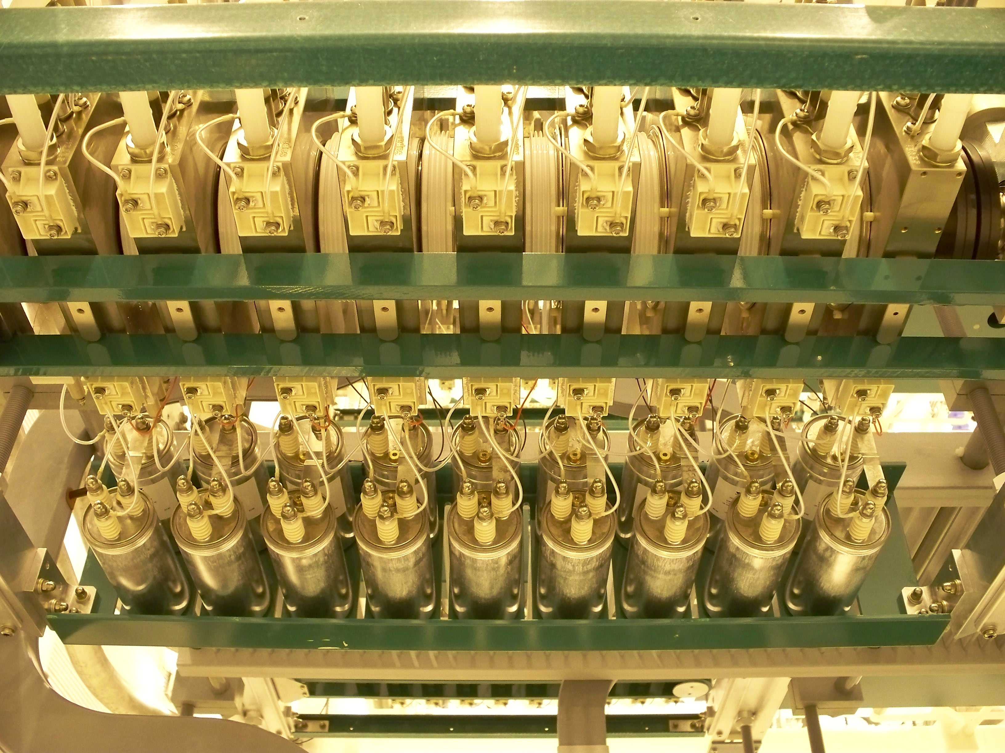 Rectifier detail. Hydro-Québec Outaouais substation, at L'Ange-Gardien, Quebec.